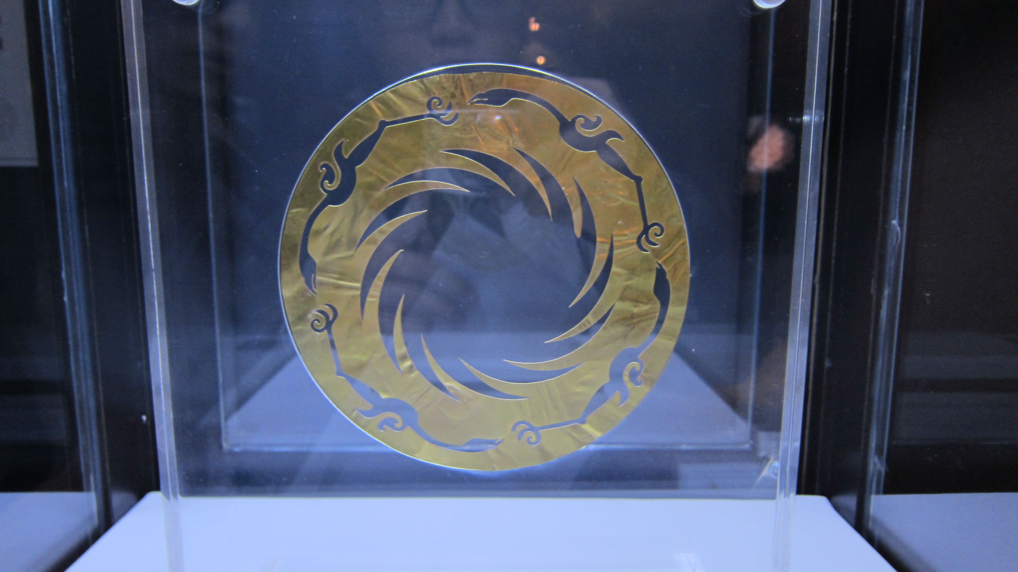 Jinsha sunbird golden foil